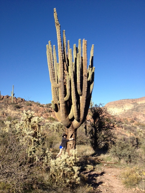 Located in the Superstition Mountains